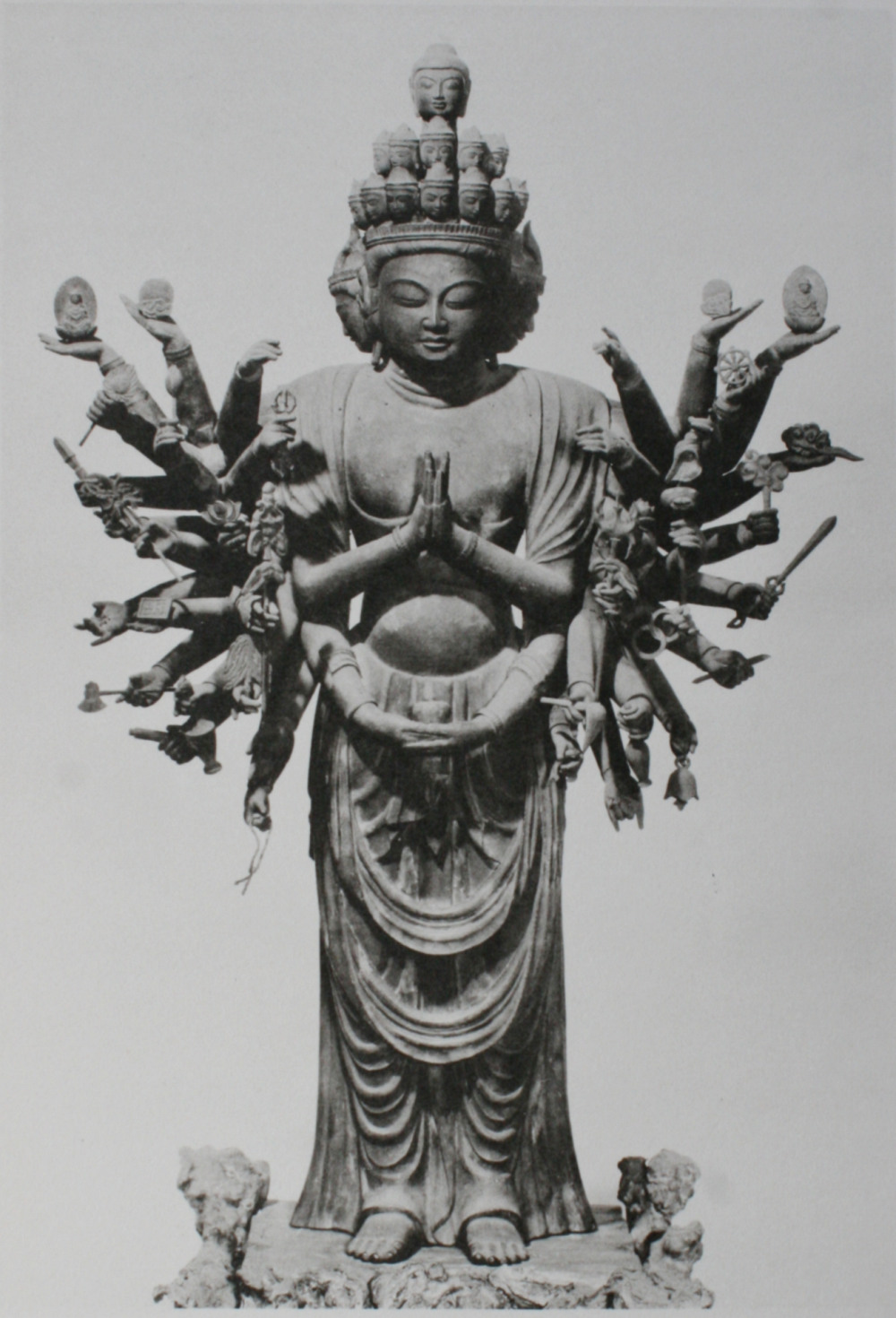 Thousand-armed Kannon (sahasrabhuja aaryaavalokitezvara), wood , Heian period, around 934 woodColored wood (faded) , 109.7 cm (43.2 in) , Hosshoji, Kyoto, Japan